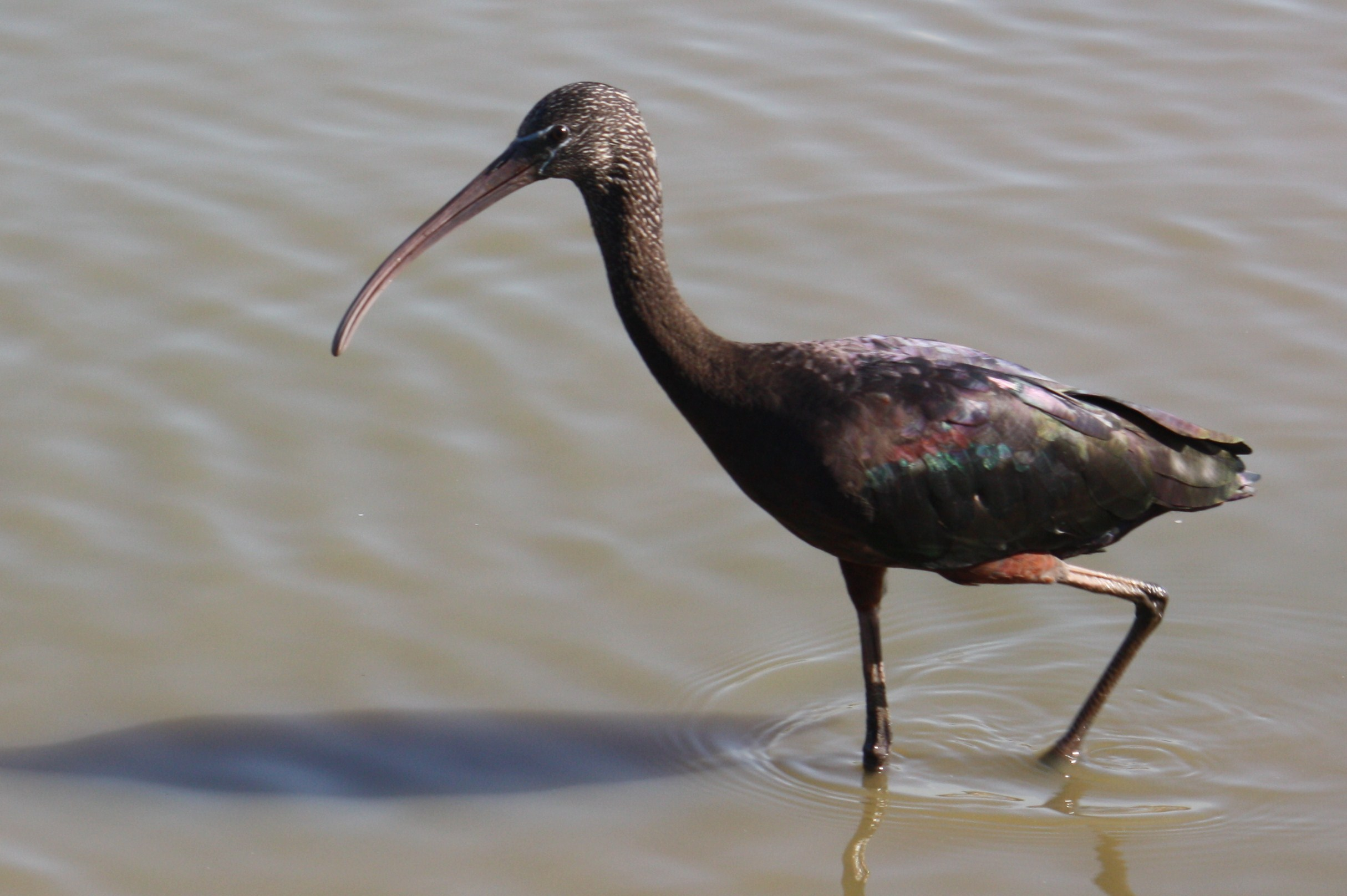 "Maglan" (Glossy Ibis) in the Safari, Ramat-Gan, Israel